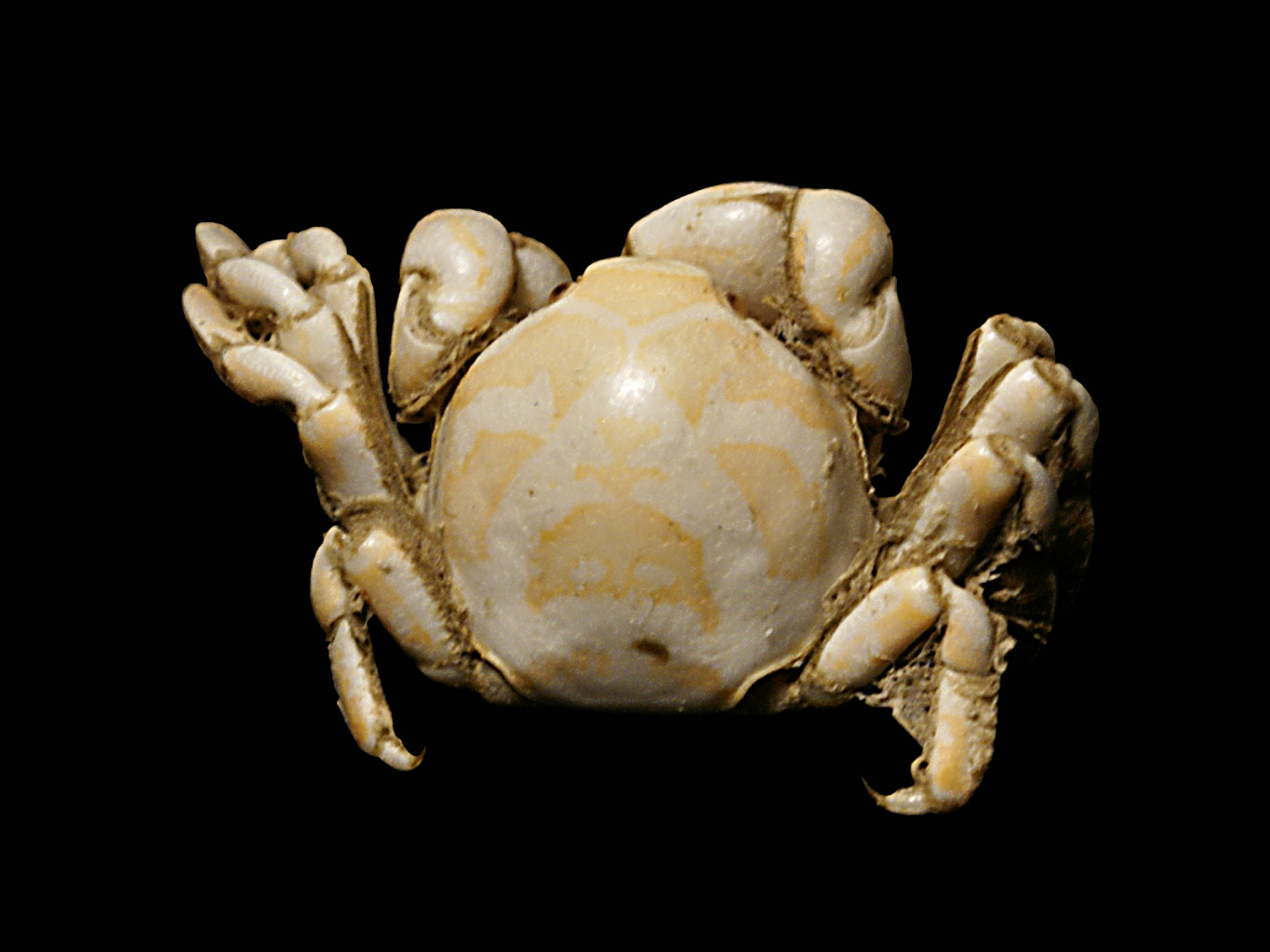 Pea crab from the Southern North Sea.